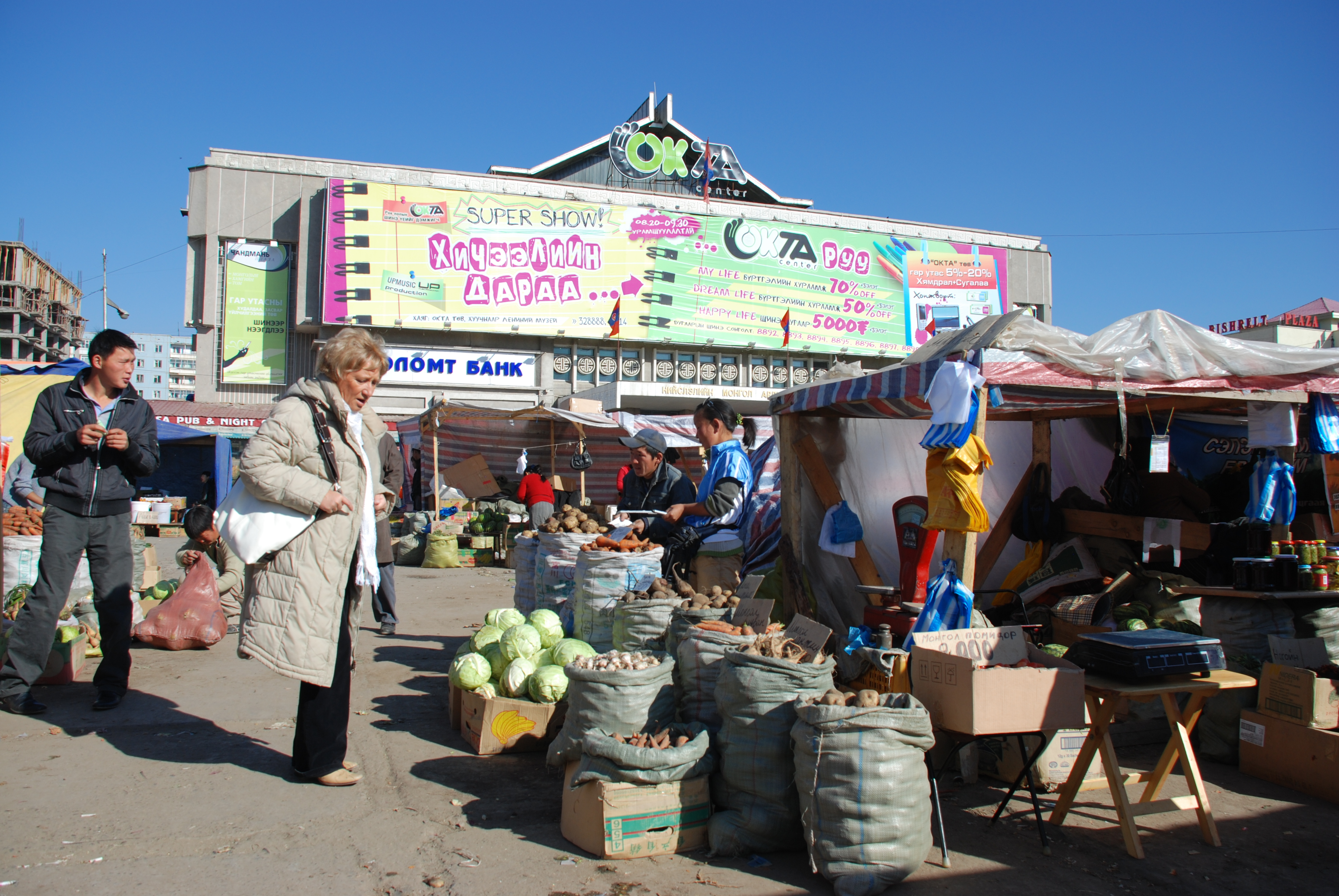 Market in Ulan Bator, Mongolia.